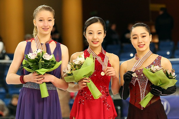 Maria Sotskova (2), Marin Honda (1), Wakaba Higuchi (3) at the 2016 World Junior Figure Skating Championships